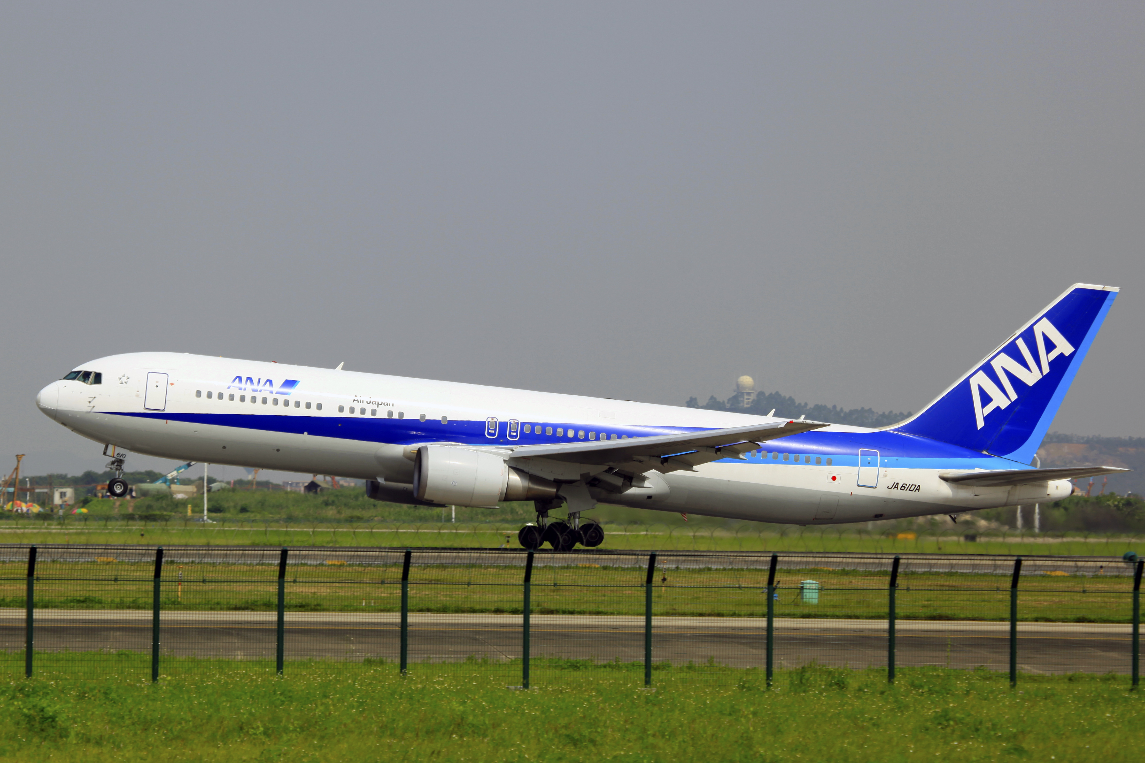 JA610A | All Nippon Airways | Boeing 767-381(ER) | Guangzhou Baiyun International Airport [CAN]